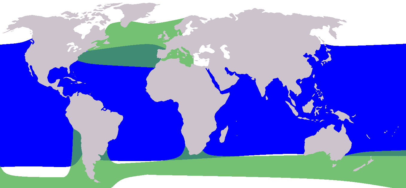 Range map of the two Pilot Whale species: Short-finned Pilot Whale (Globicephala macrorhynchus) in blue Long-finned Pilot Whale (Globicephala melas) in green